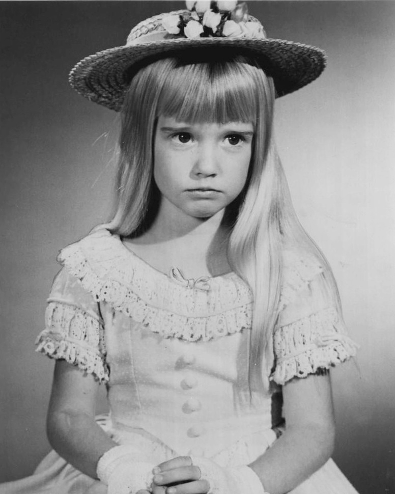 Publicity photo of child actress Kim Richards promoting her role on the ABC television series Nanny and the Professor, 1971.